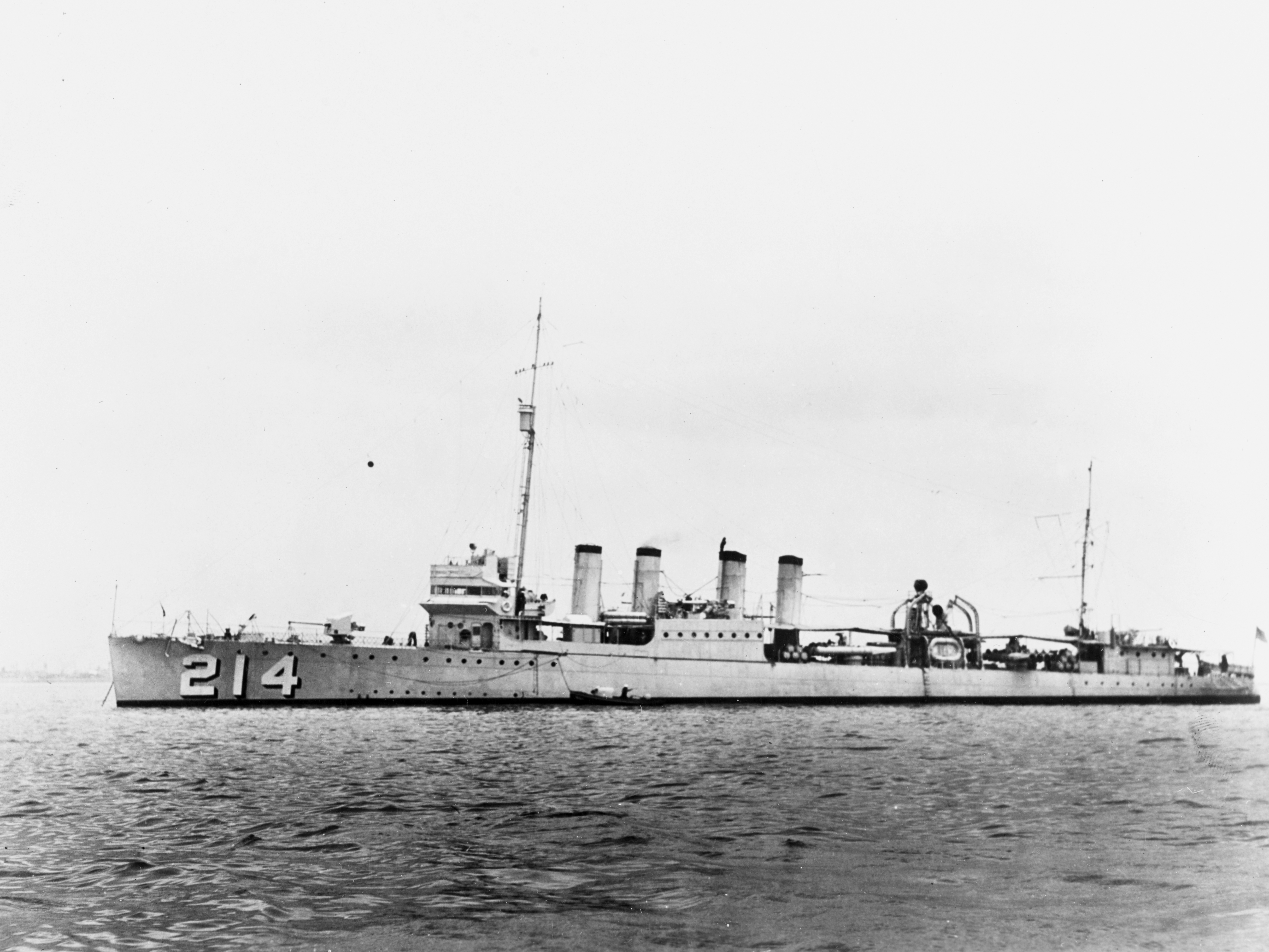 The U.S. Navy destroyer USS Tracy (DD-214) at anchor during the 1920s or 1930s.